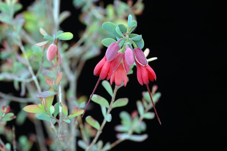 Homoranthus zeteticorum in the Australian National Botanic Gardens